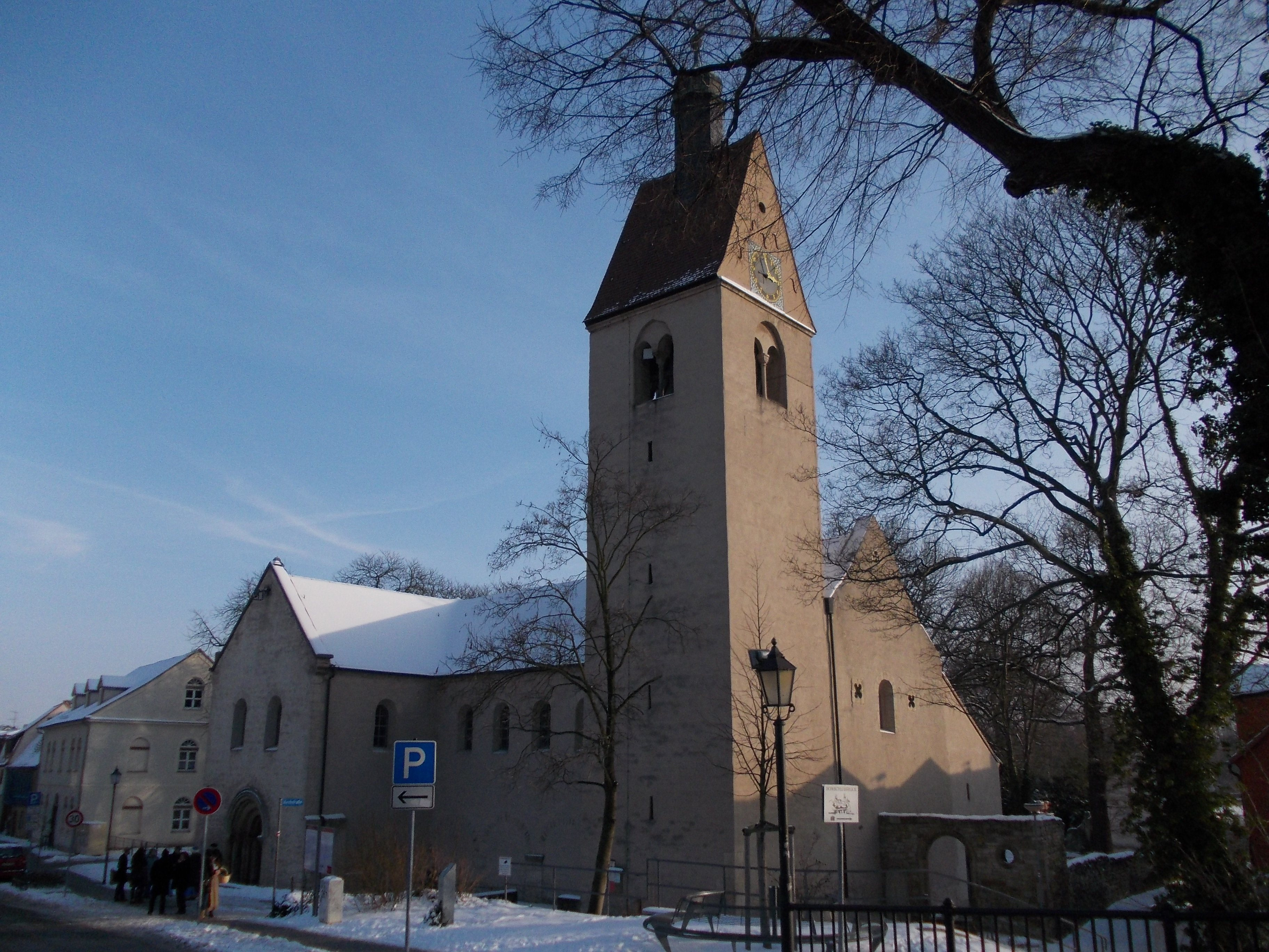 St. Thomas Becket church at Neumarkt in Merseburg (district of Saalekreis, Saxony-Anhalt)